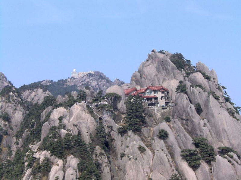 Hotels on the peaks of Huangshan